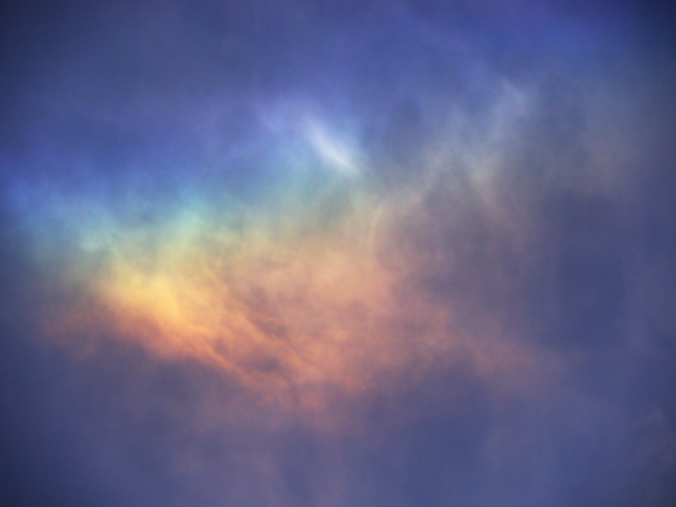 Circumzenithal arc limited to an ice cloud